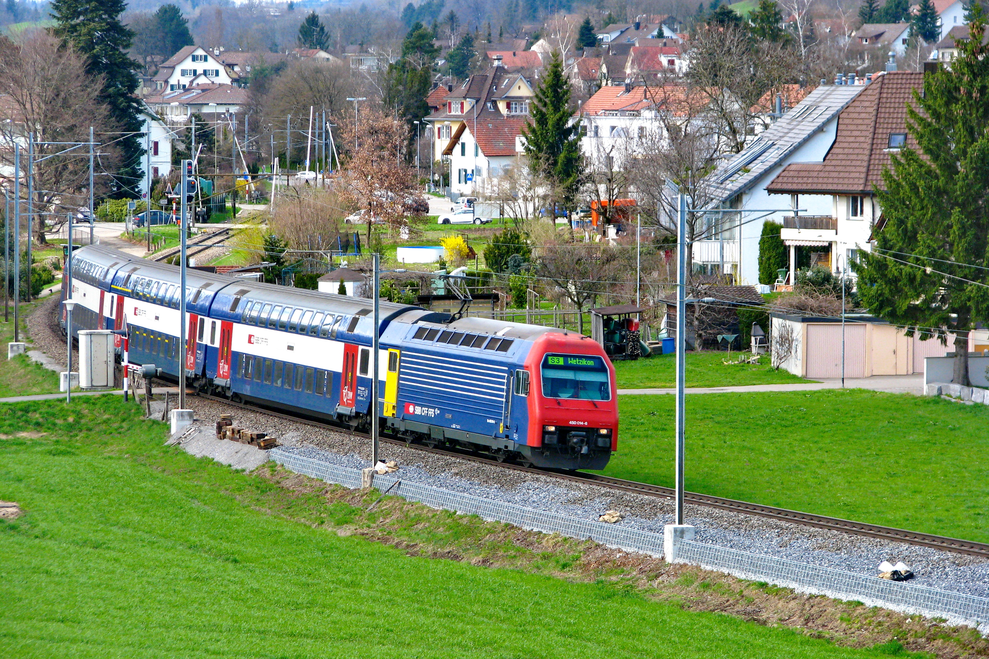 Irgenhausen (Pfäffikon), as seen from the Roman castrum, S-Bahn Zürich S3 line crossing towards Wetzikon.